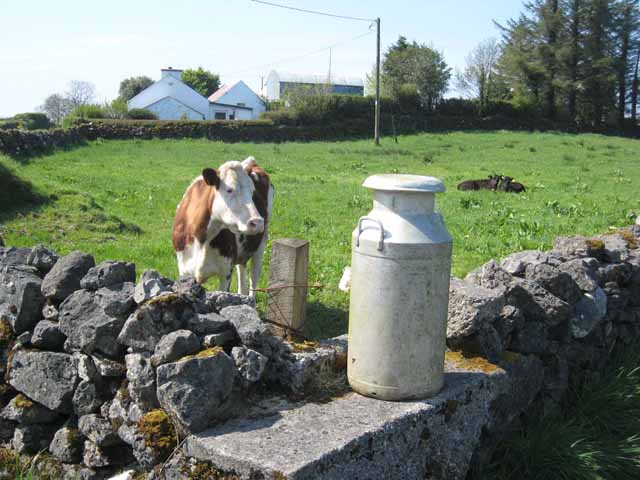 Cow and milk churn, Newtownmanor Unusual to see milk collected from the churn nowadays.